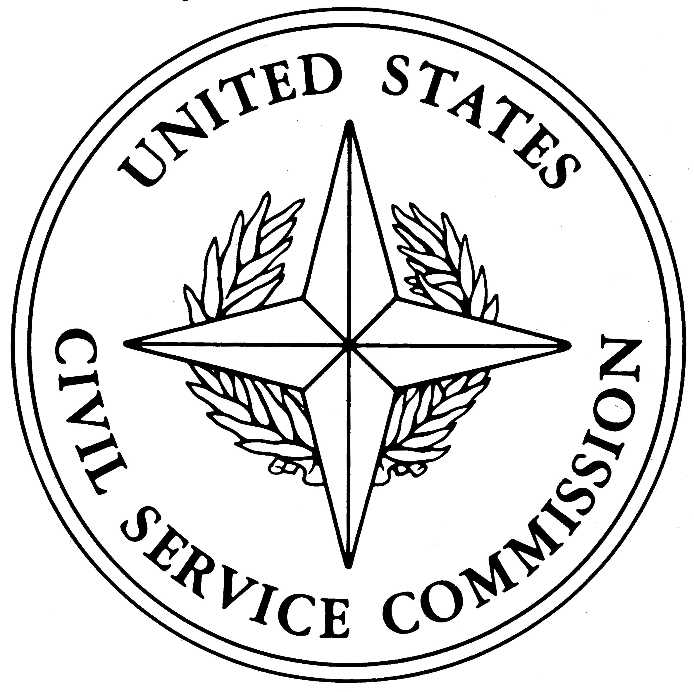 Illustration of the seal of the United States Civil Service Commission from Executive Order 11096, which defined the seal. The design is described there as: On a white background a four-pointed ridged gold star over a palm wreath in green with a gold tie, around which are the words at top "UNITED STATES" and below "CIVIL SERVICE COMMISSION", all within a narrow gold border.